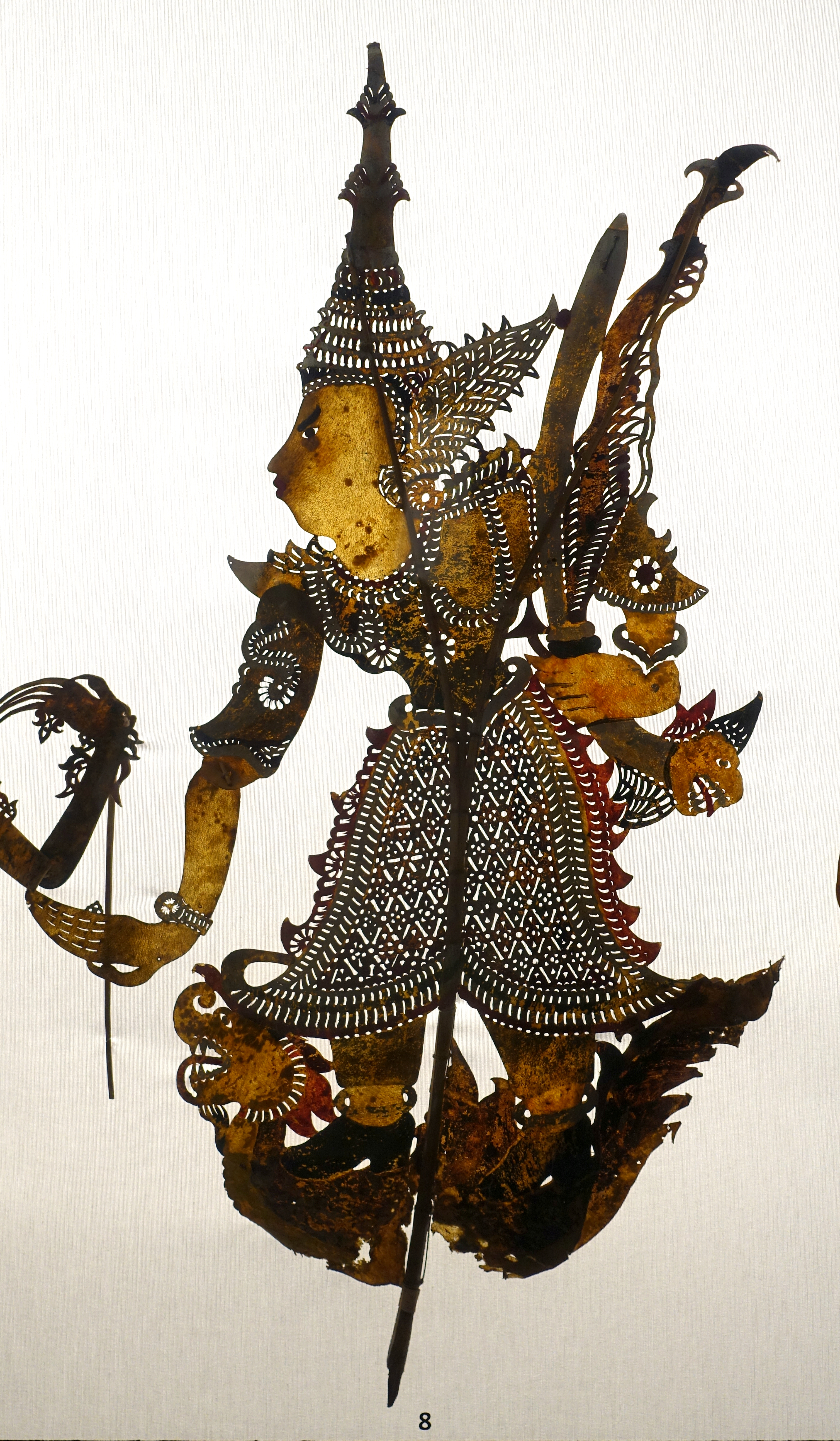 Exhibit in the Museu do Oriente - Lisbon, Portugal. This work is old enough so that it is in the public domain.